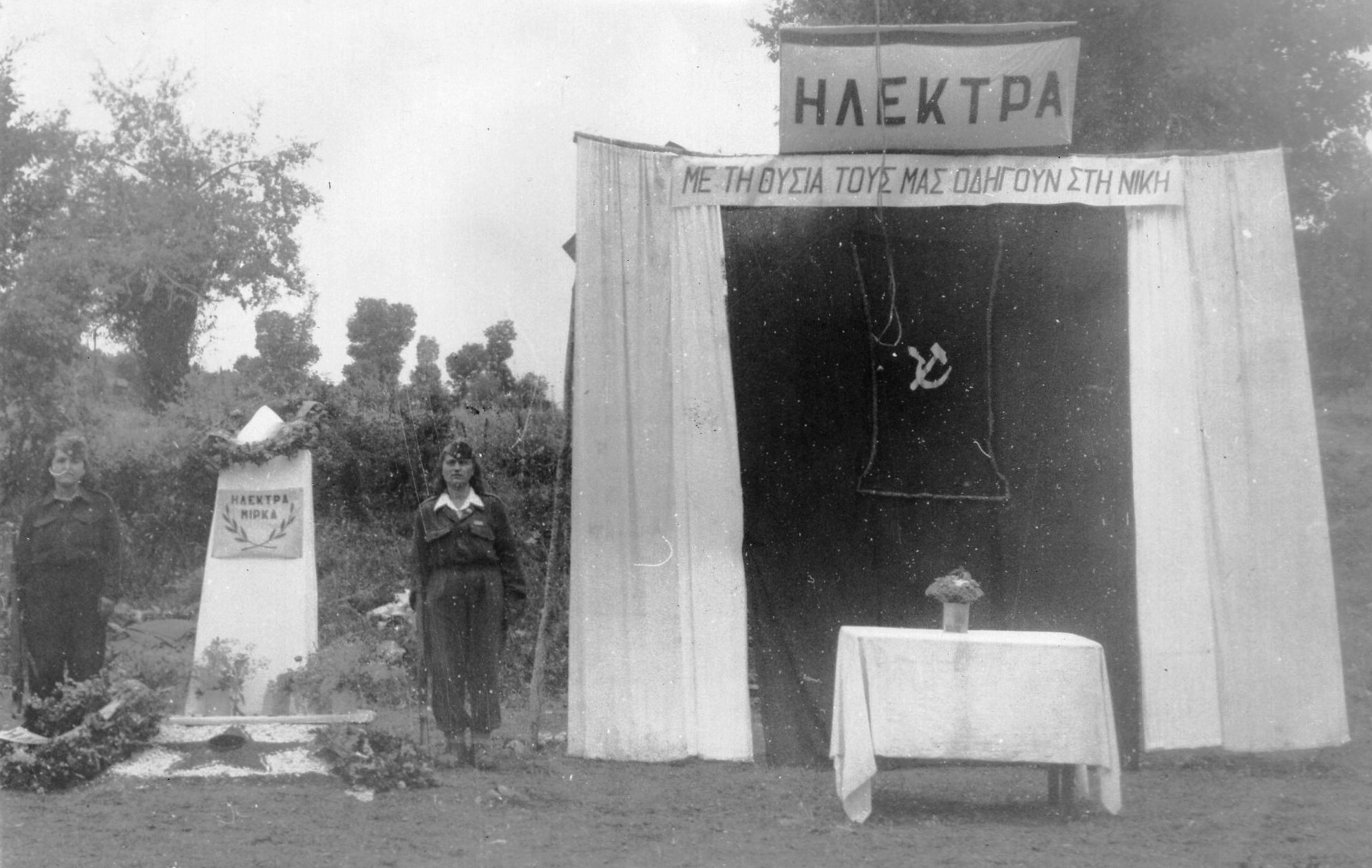 Democratic Army of Greece fighters conduct elections This media file is produced by Wikipedian in Residence in Category:Wikipedian in Residence at DARM in 2016.